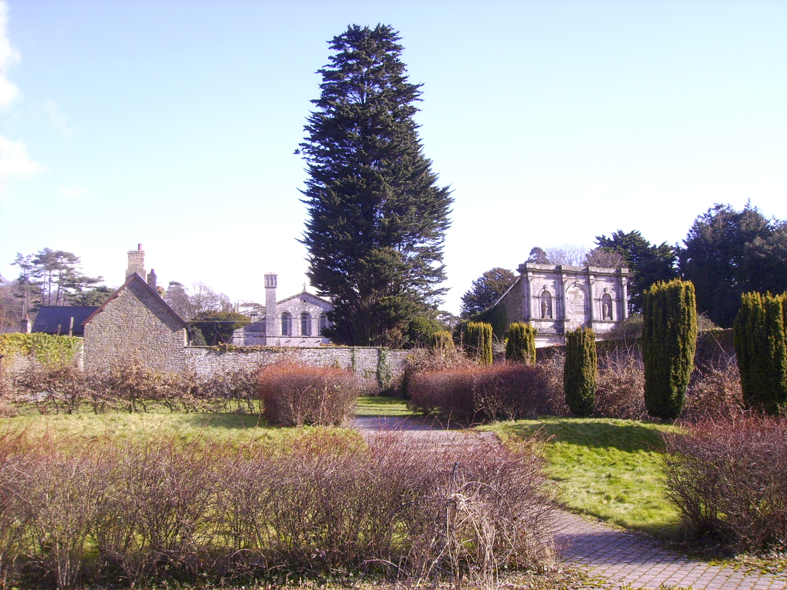 Taken from within the Orangery Gardens of Margam County Park.